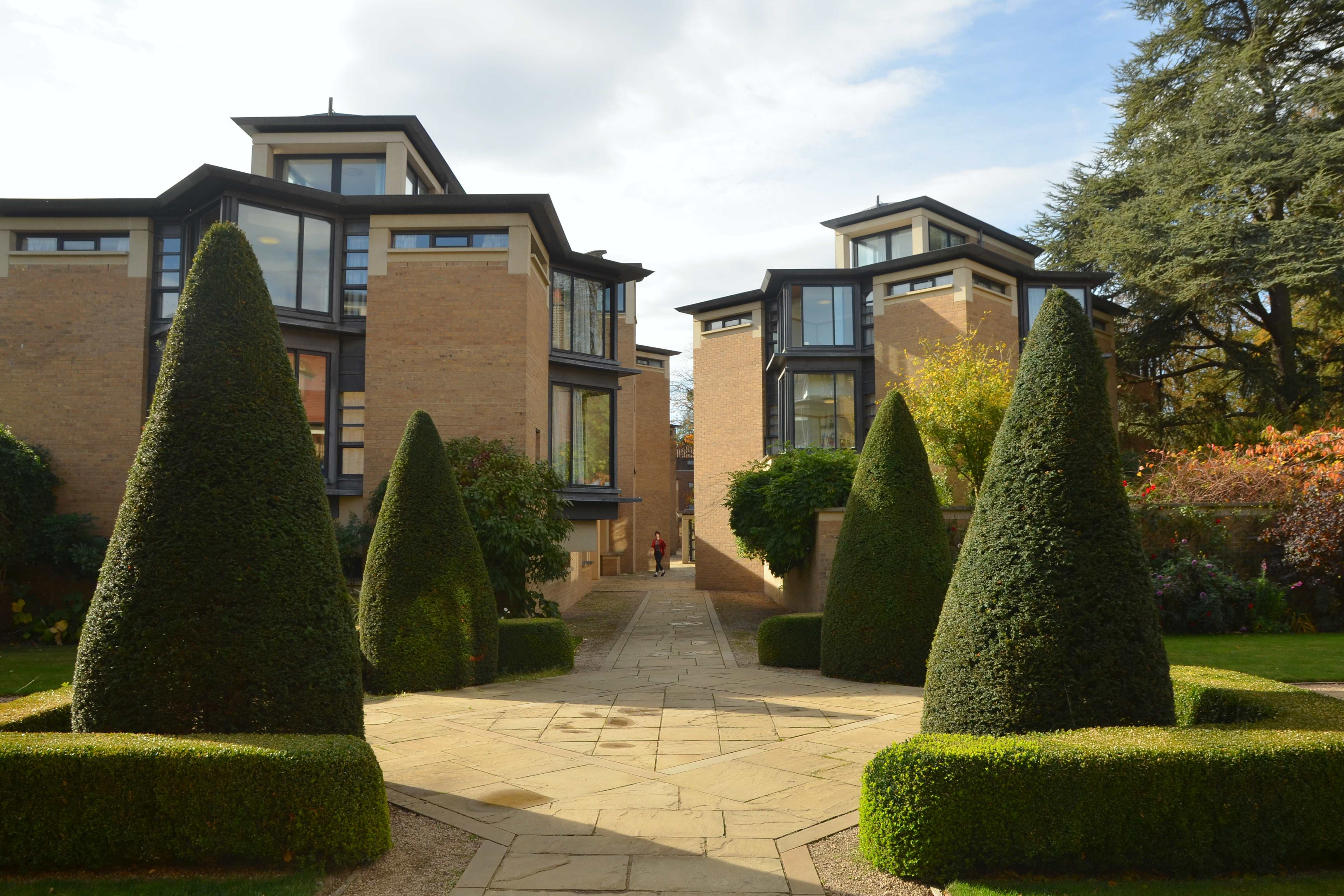 Burrell's Field of Trinity College, Cambridge in October 2018.